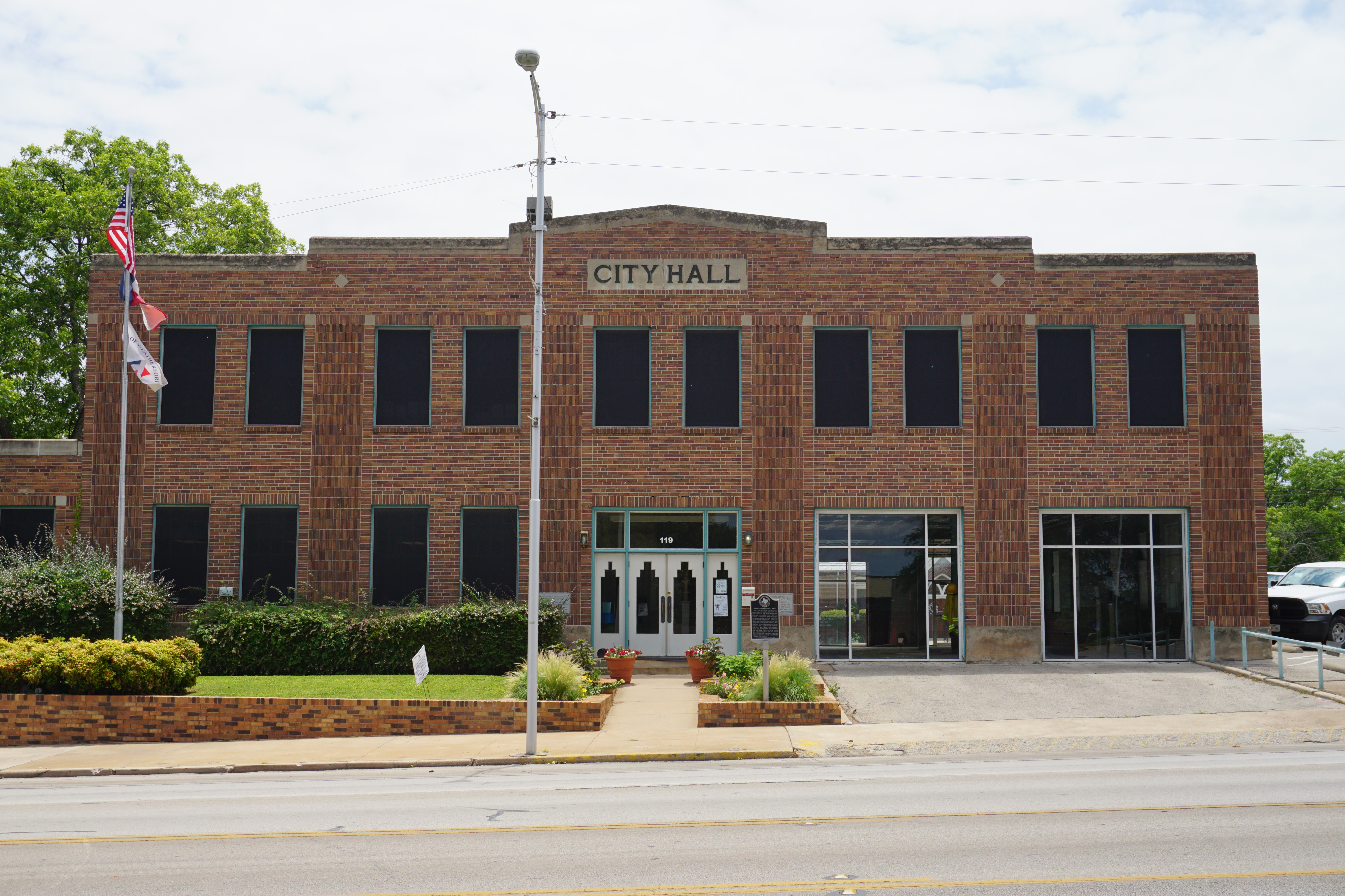 The 1933 Weatherford City Hall in Weatherford, Texas (United States).